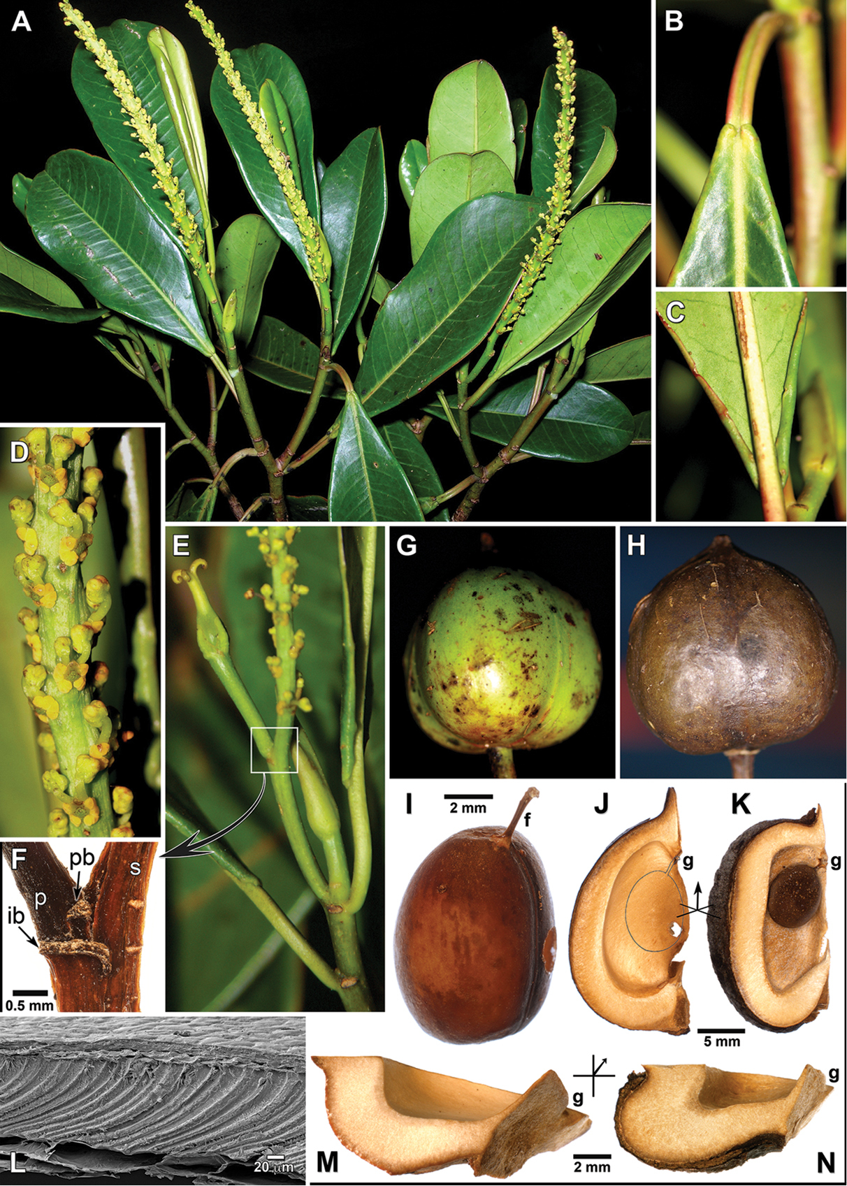 Incadendron esseri morphology.